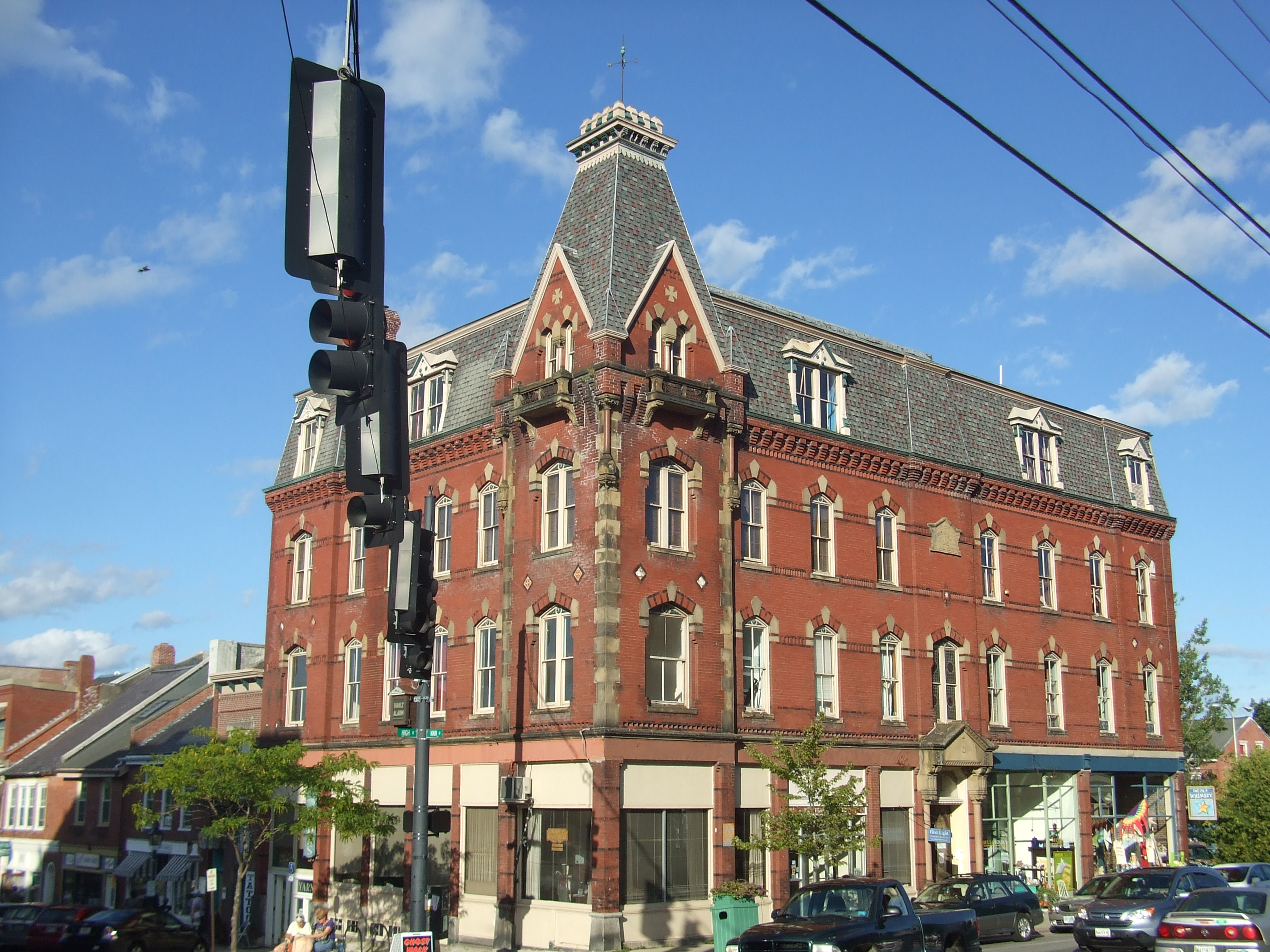 A fascinating building at the main crossroads in Belfast Maine